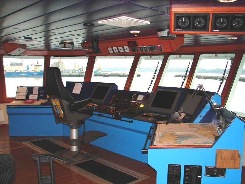 Bridge of the salvage tug Abeille Bourbon